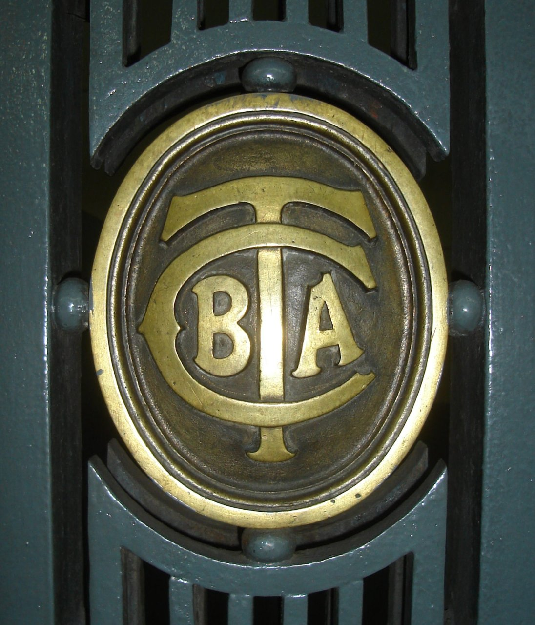 The Ferrocarril Terminal Central de Buenos Aires would be access to the centre of Buenos Aires of Ferrocarril Central de Buenos Aires of Lacroze brothers. And ended up the B line subway.